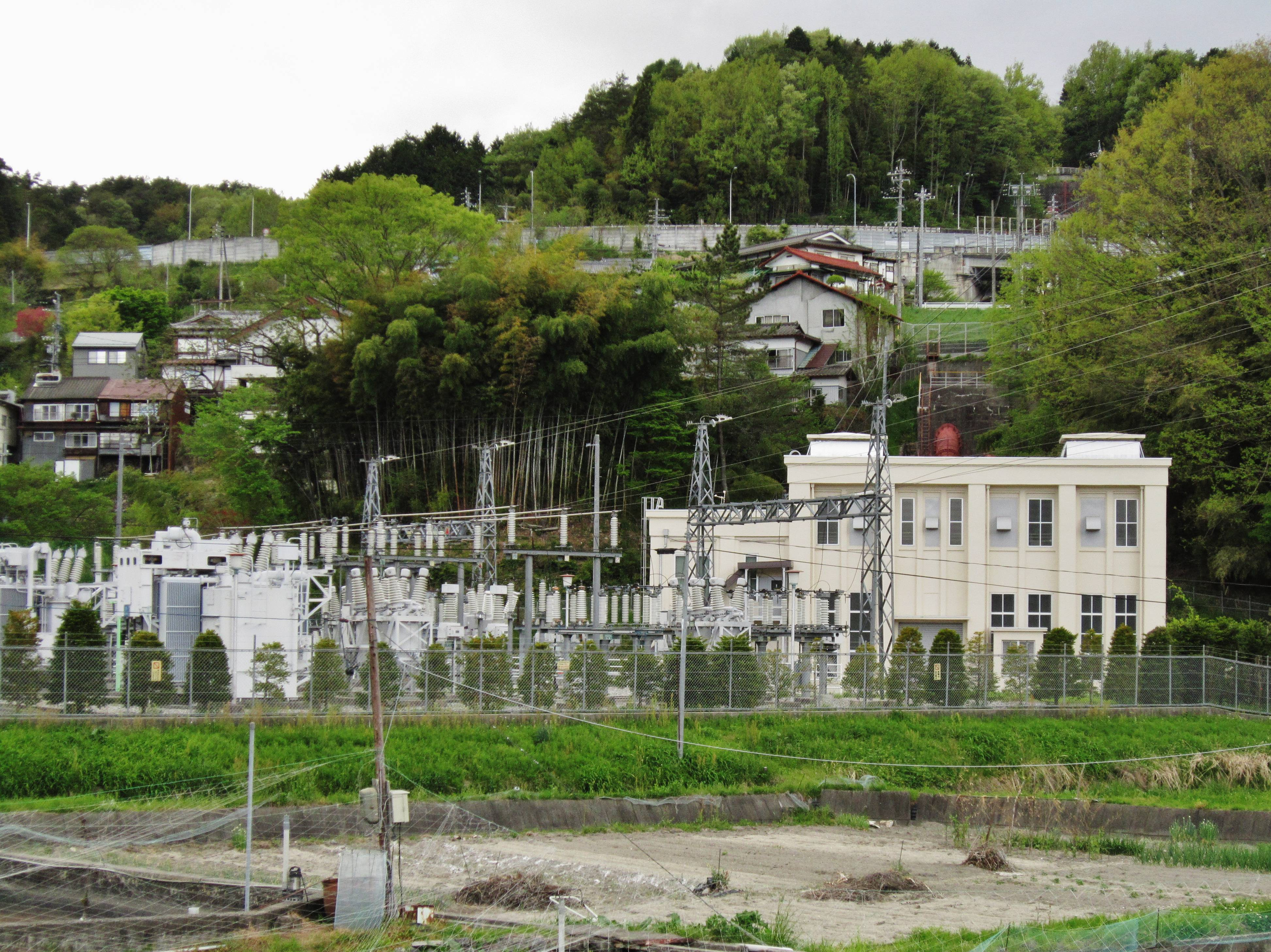 Komaba power station.